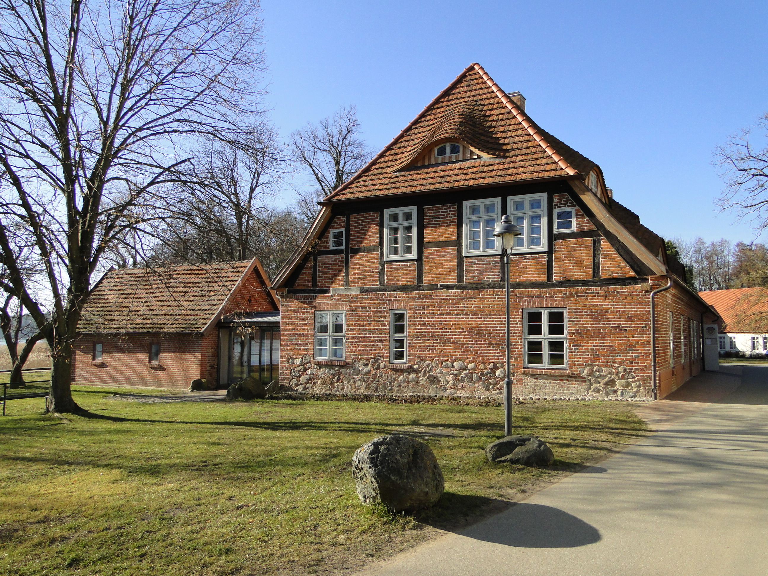 Brau- und Brennhaus in the monastery in Dobbertin, district Ludwigslust-Parchim, Mecklenburg-Vorpommern, Germany